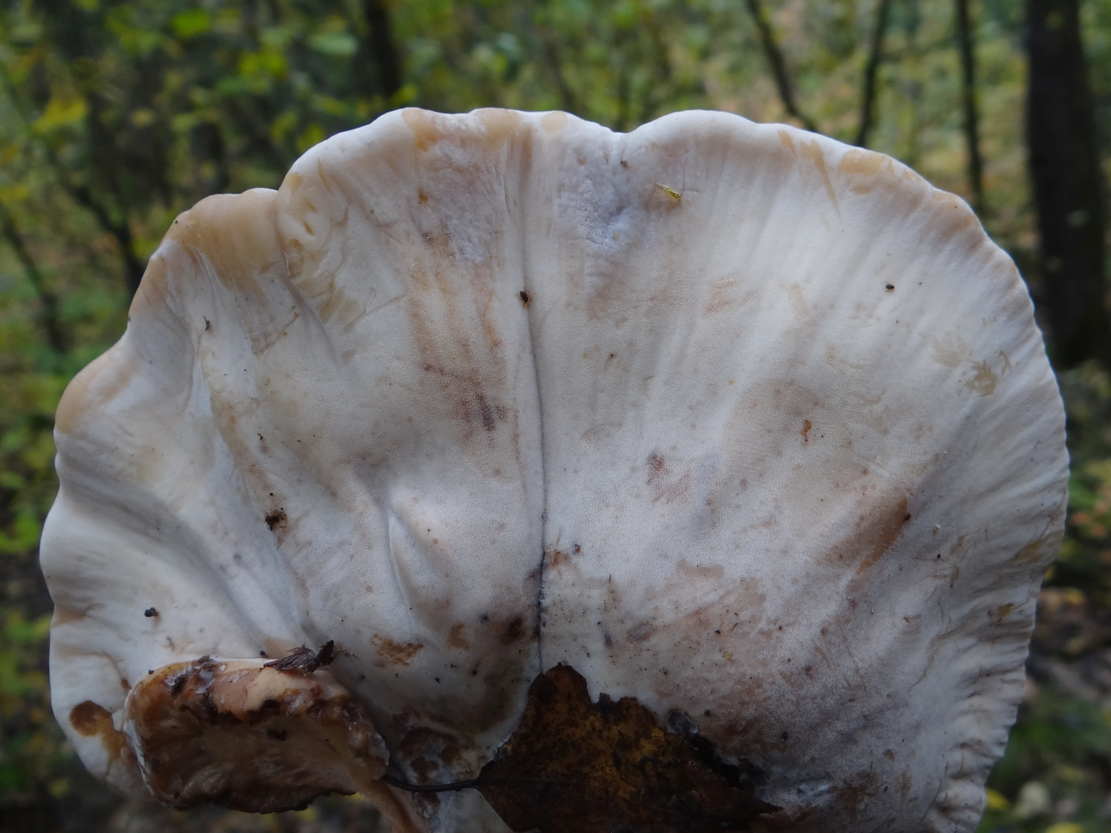 Ischnoderma resinosum. Hymenofor (location: Poland, Borzęcin Dolny, Waryś)